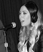 WMMS radio personality Erika Lauren broadcasts live from the House of Blues Crossroads restaurant in Cleveland, Ohio, United States